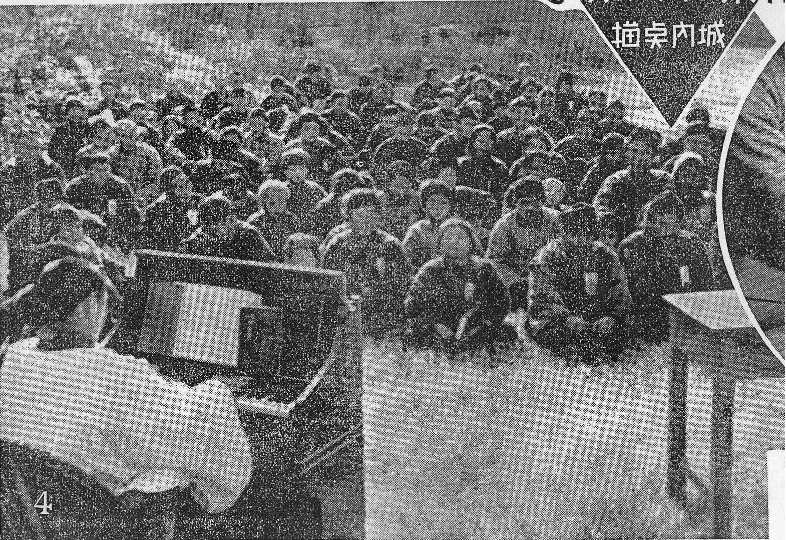 They sing hymns in the yard of Chinese church of Nanking.